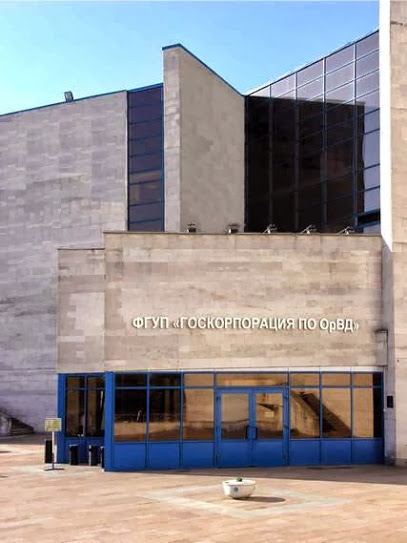 Head office of State Air Traffic Management Corporation of the Russian Federation